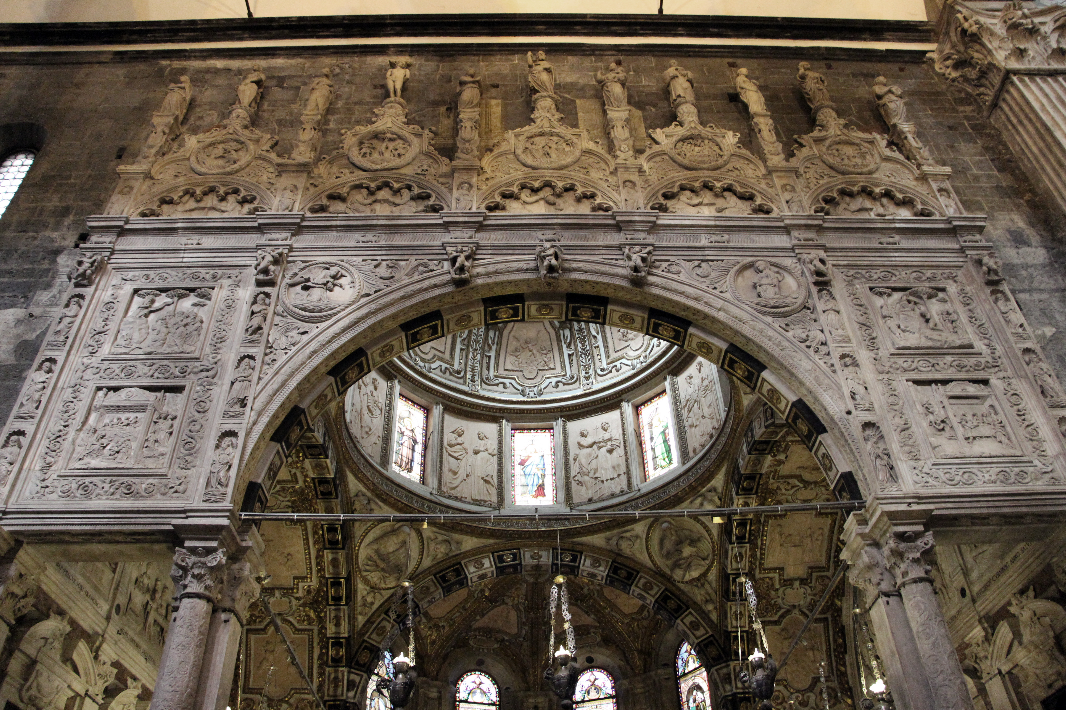 Sculptures in the Cappella di San Giovanni (San Lorenzo, Genoa)